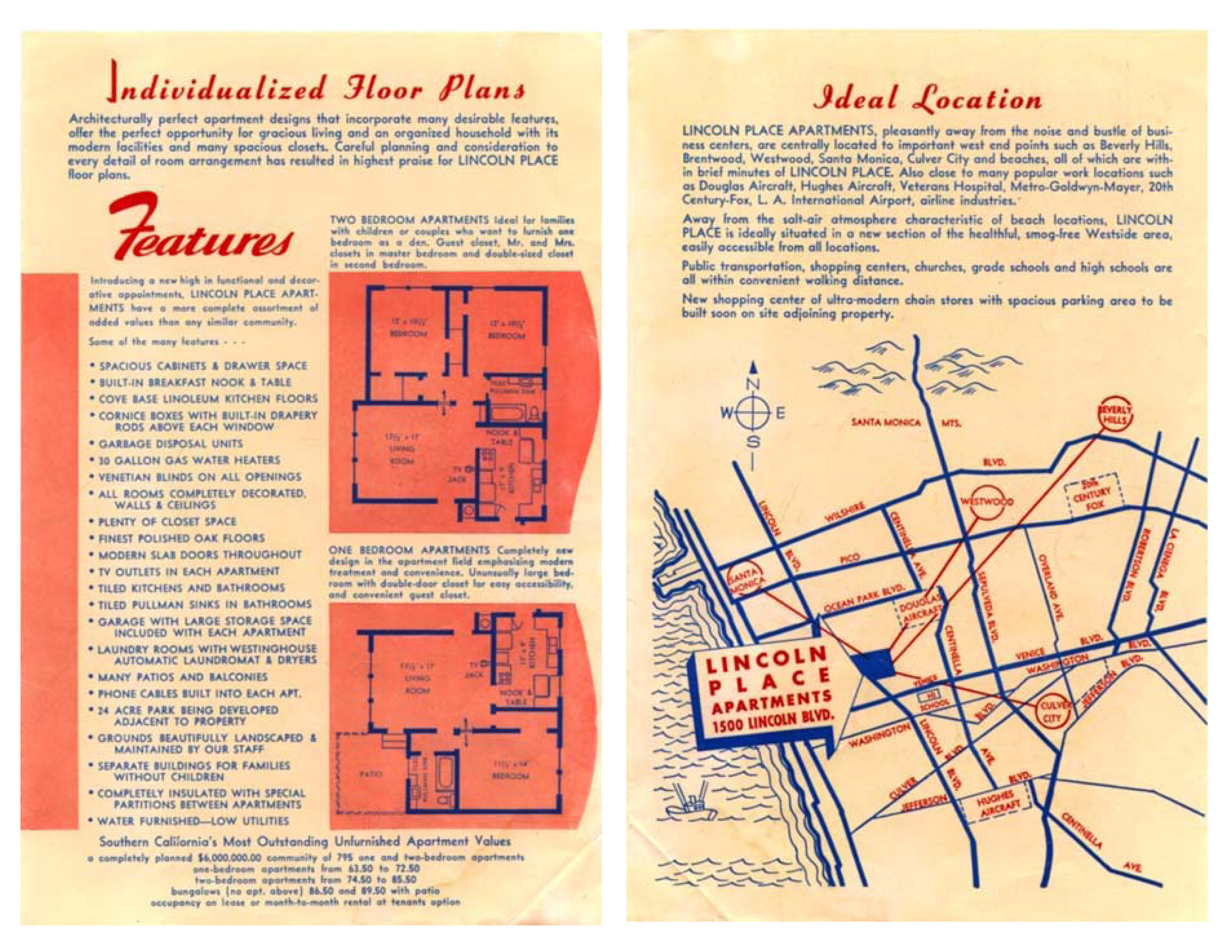 Scan of the original 1951 brochure (inside) for Lincoln Place Gardens. Information about the features and location. Photo depicts location map and floor plan diagrams.